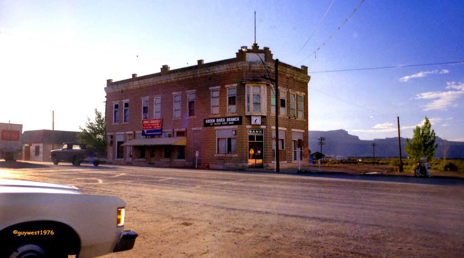 Green River old bank cross Mainstreet & Broadway- slide of 1976